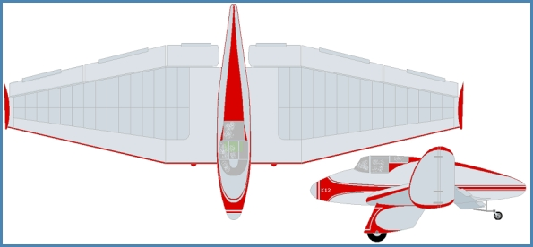 Kalinin K-11 Glider (K-12P)